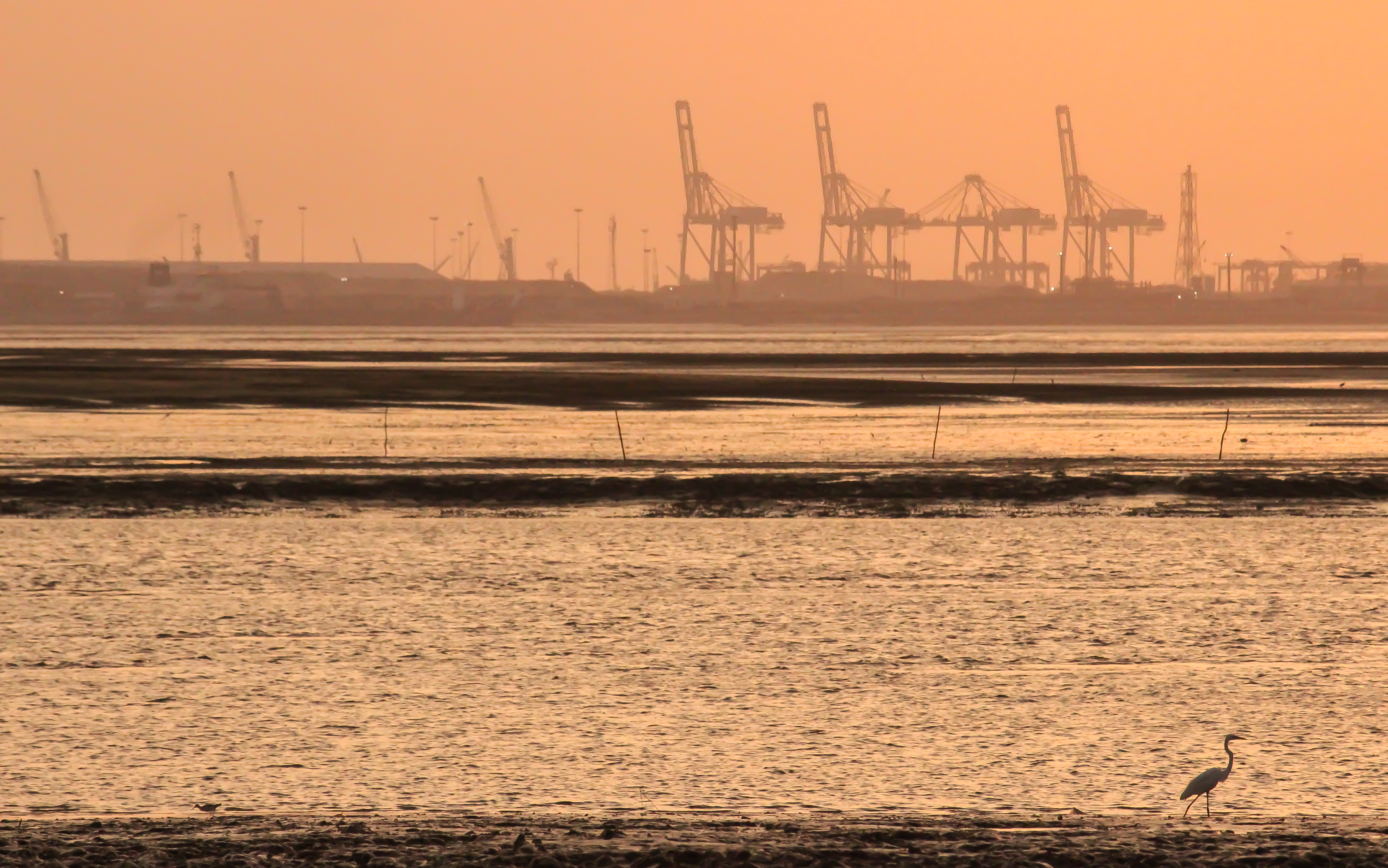 Dumas beach at evening time